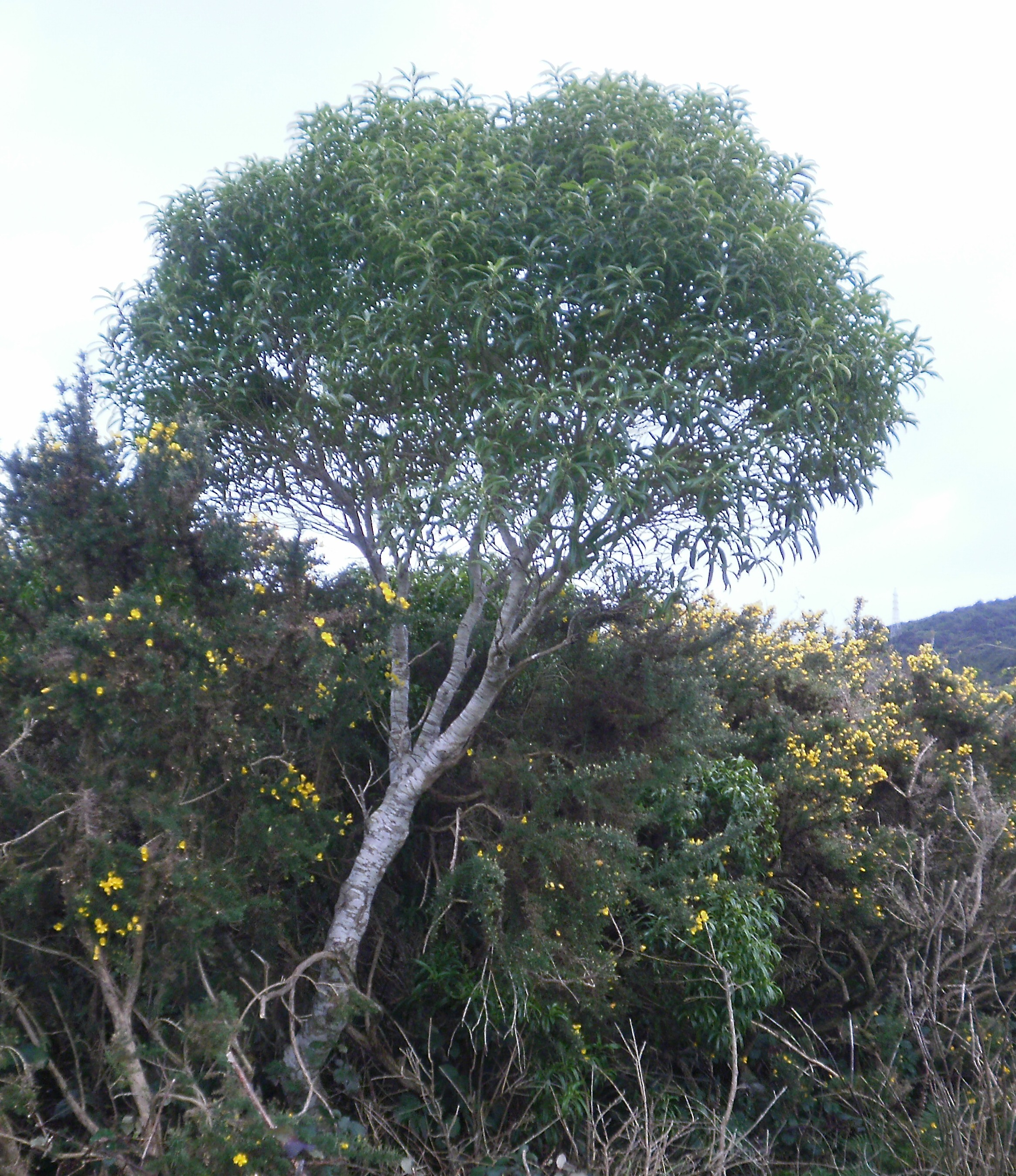 Melicytus lanceolata, Narrow-leaved mahoe, tree in Waiu wetland, Wainuiomata, Wellington, New Zealand.